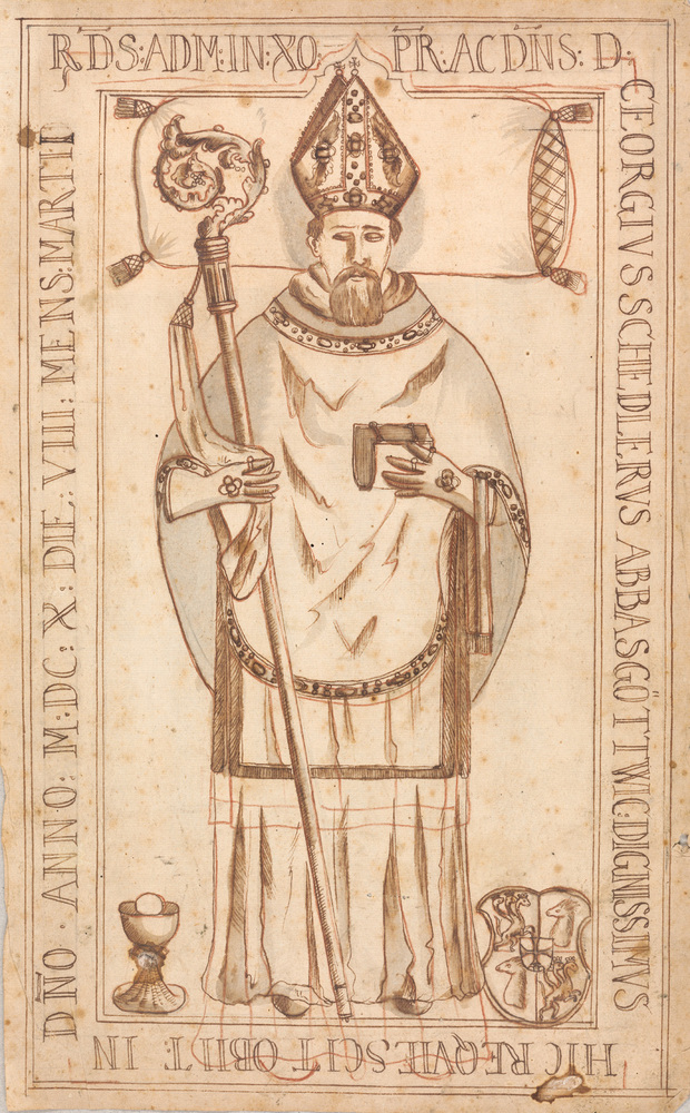 The Abbot of Göttweig Abbey Georg Schedler (reg. 1604-1610)